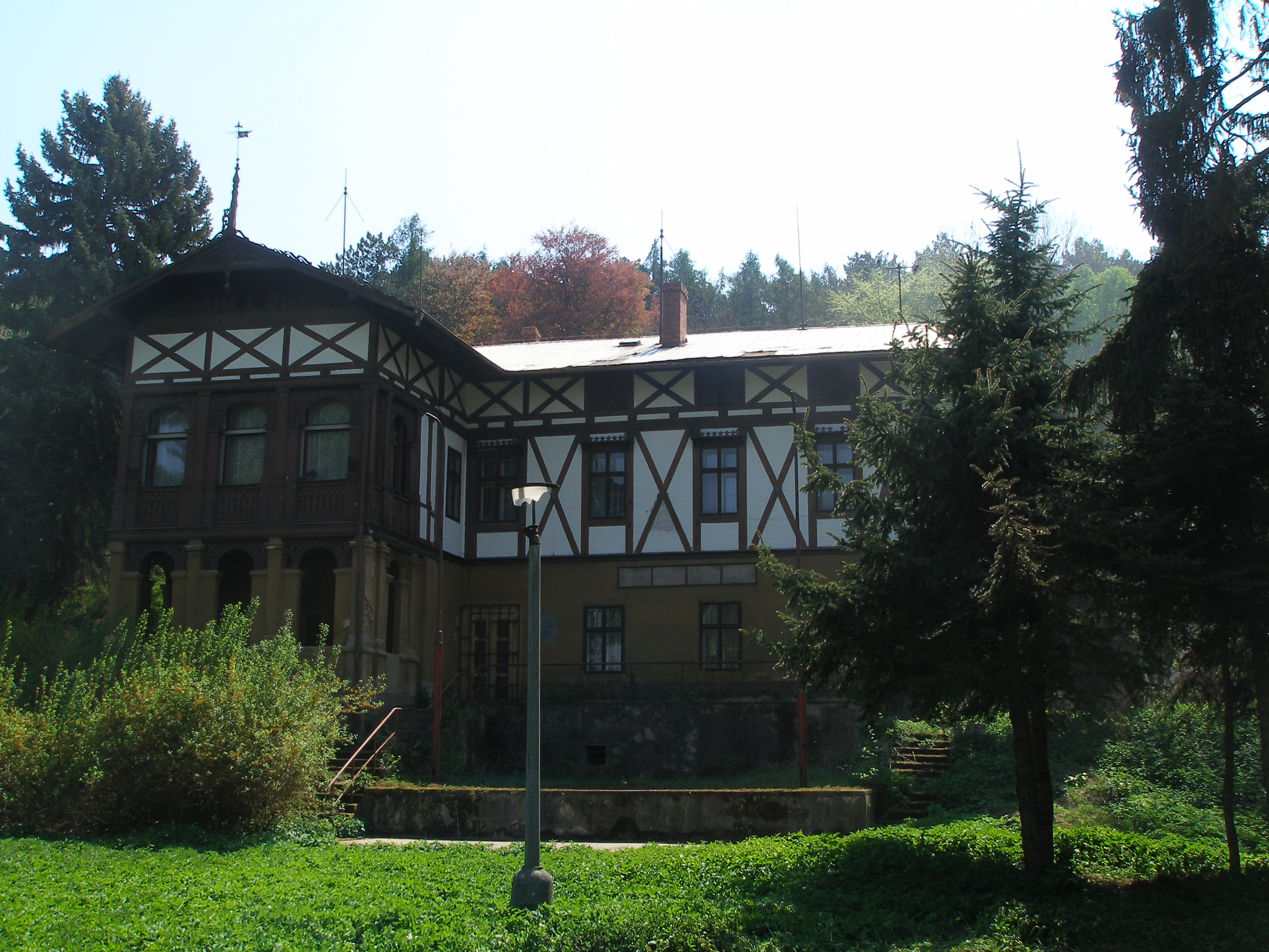 Villa of Augustin Švagrovský in Bechlín.